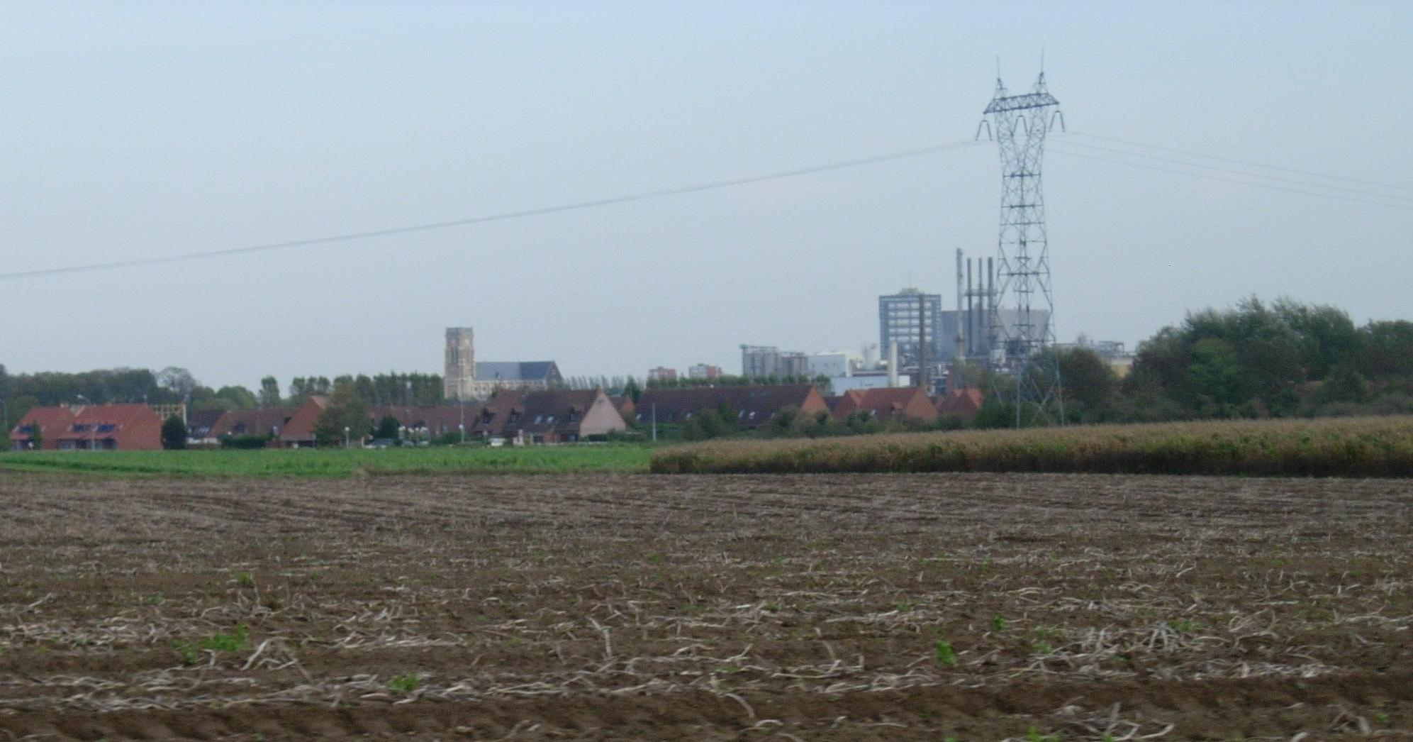 View of Haubourdin, Eglise Saint-Maclou, from Hallennes-lez-Haubourdin (La Colle)